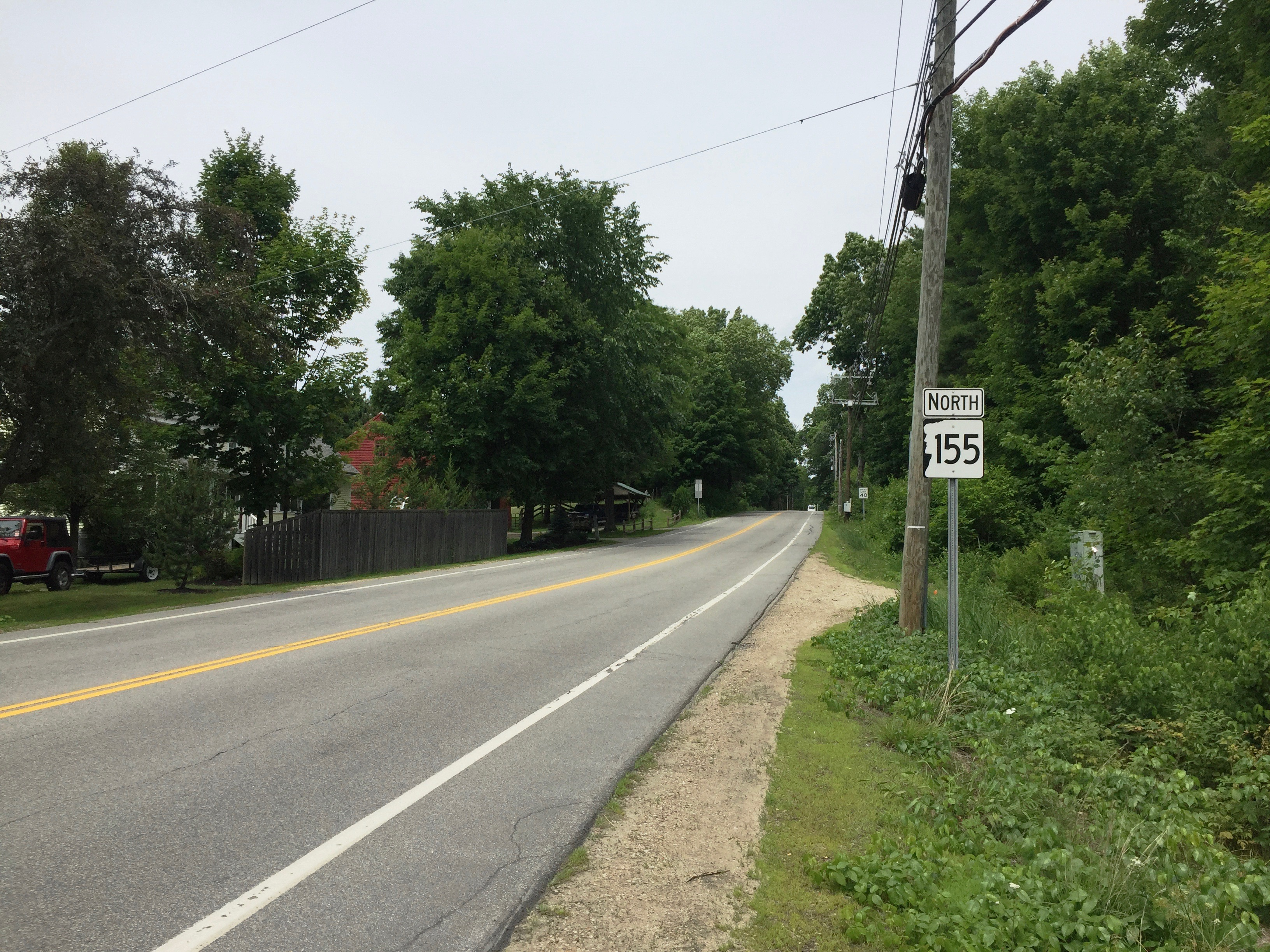 New Hampshire Route 155 in northern Lee, New Hampshire, June 2018